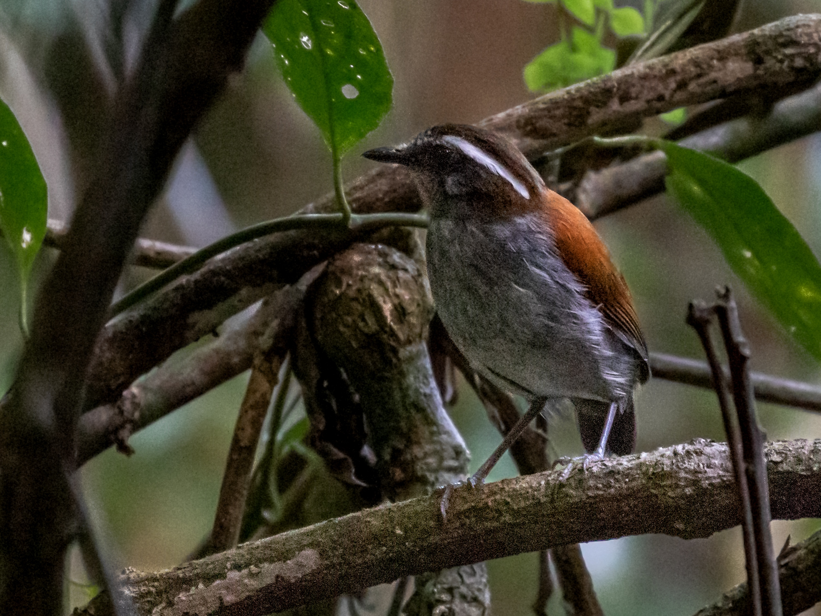 Black-bellied Gnateater (female); Carajás National Forest, Pará, Brazil